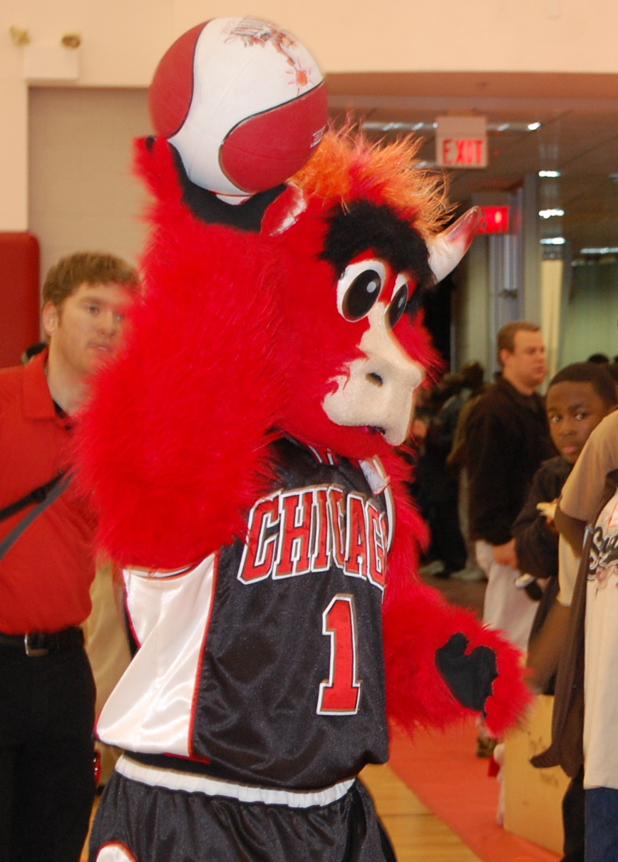 The Chicago Bulls mascot, Benny, throws the basketball to a crowd of fans who take turns tossing the ball into the basket on the other side of the gymnasium.